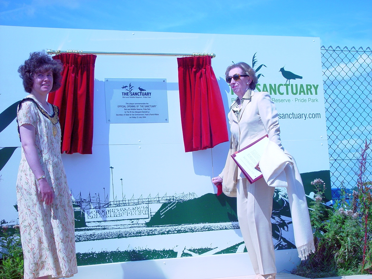 Launch of The Sanctuary Bird Reserve at Pride Park, Derby, on 23 July 2004. Mayor of Derby, Cllr Ruth Skelton on left; Margaret Beckett MP for Derby South and also Secretary of State for the Environment, Food and Rural Affairs.